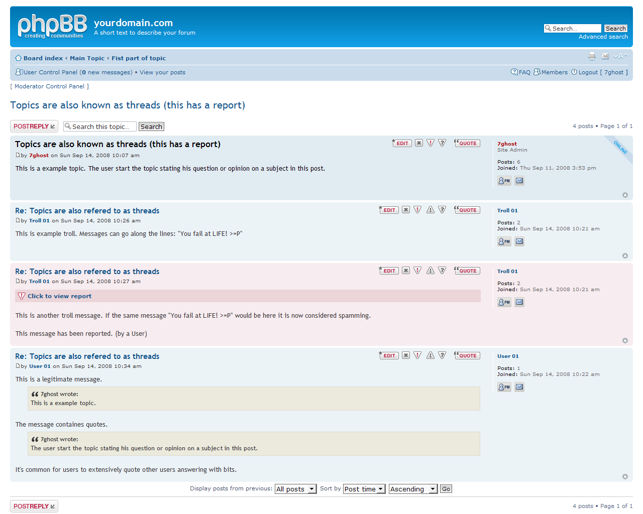 Topic (Thread) from phpBB